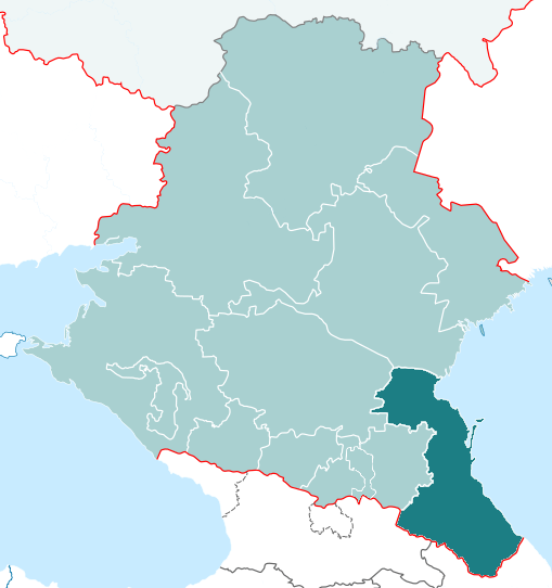 Locator map of Republic of Dagestan as part of former Southern Federal District before North Caucasian Federal District was split from it in 2010